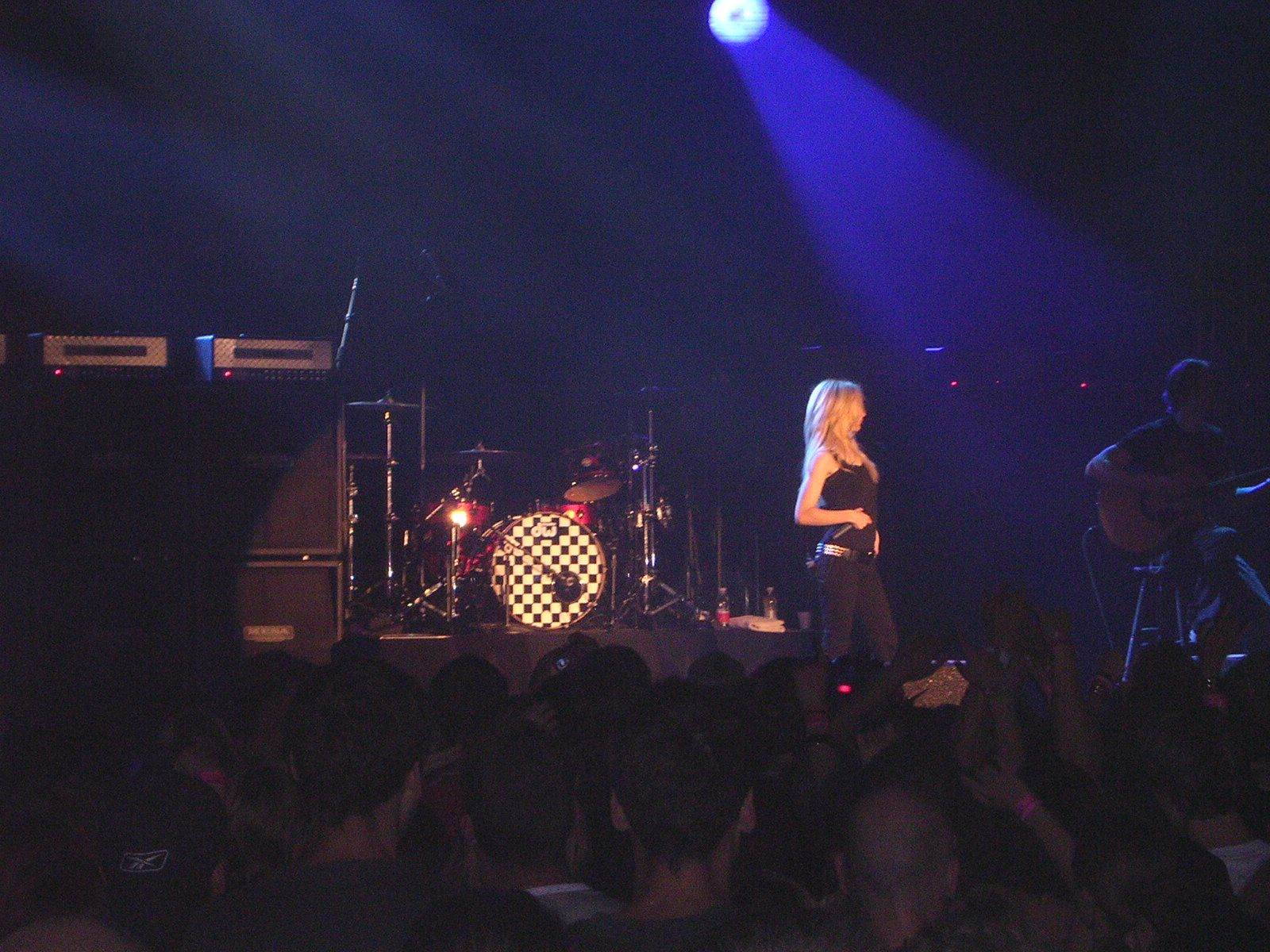 Avril Lavigne at the performances in the T-Mobile Arena in Prague June 3, 2005